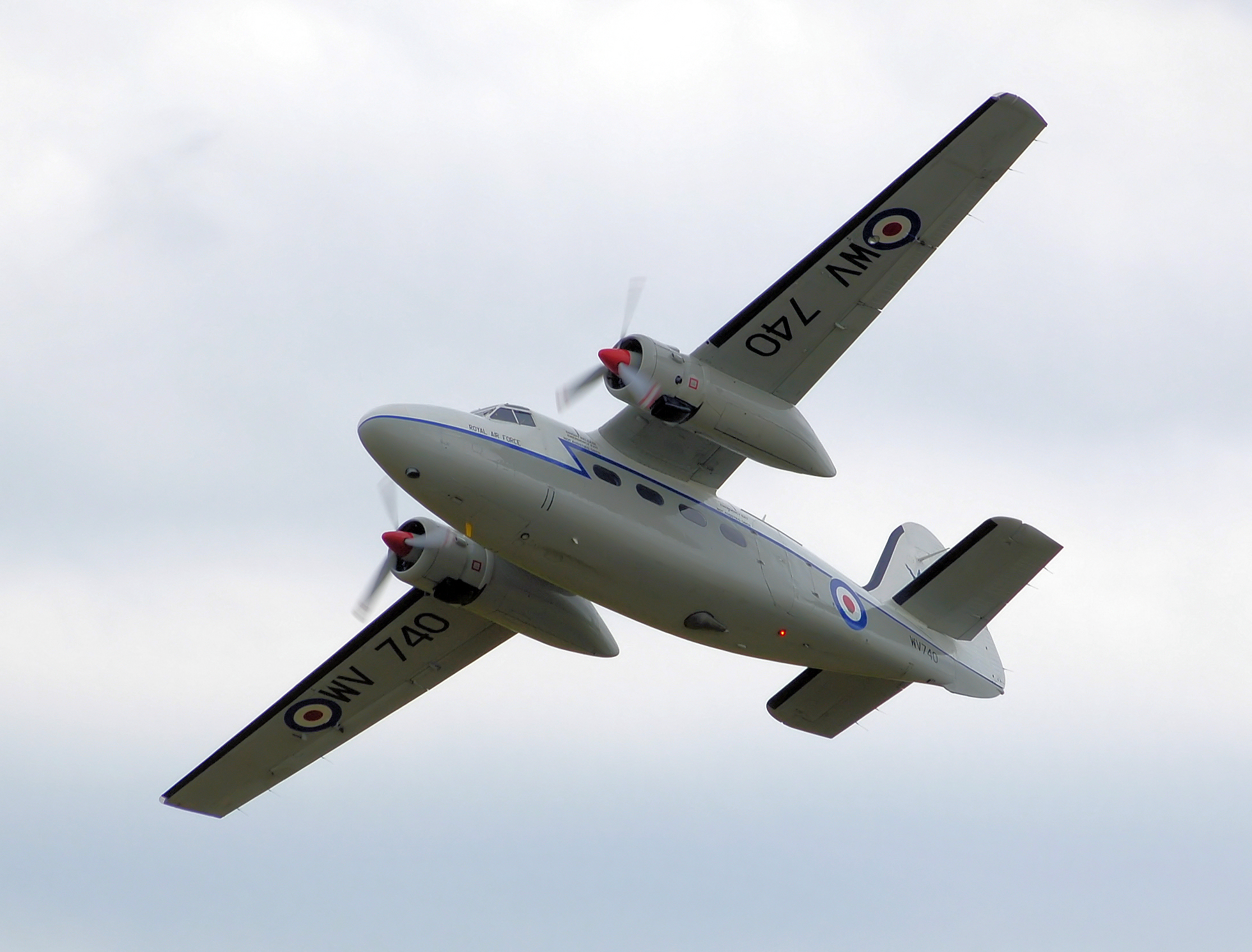 Privately-owned ex-RAF Hunting Percival P-66 Pembroke C1 (WV740, civil registration G-BNPH)) flying at Kemble Air Day 2008, Kemble Airport, Gloucestershire, England. Built 1955 and painted in Squadron 60 colours.